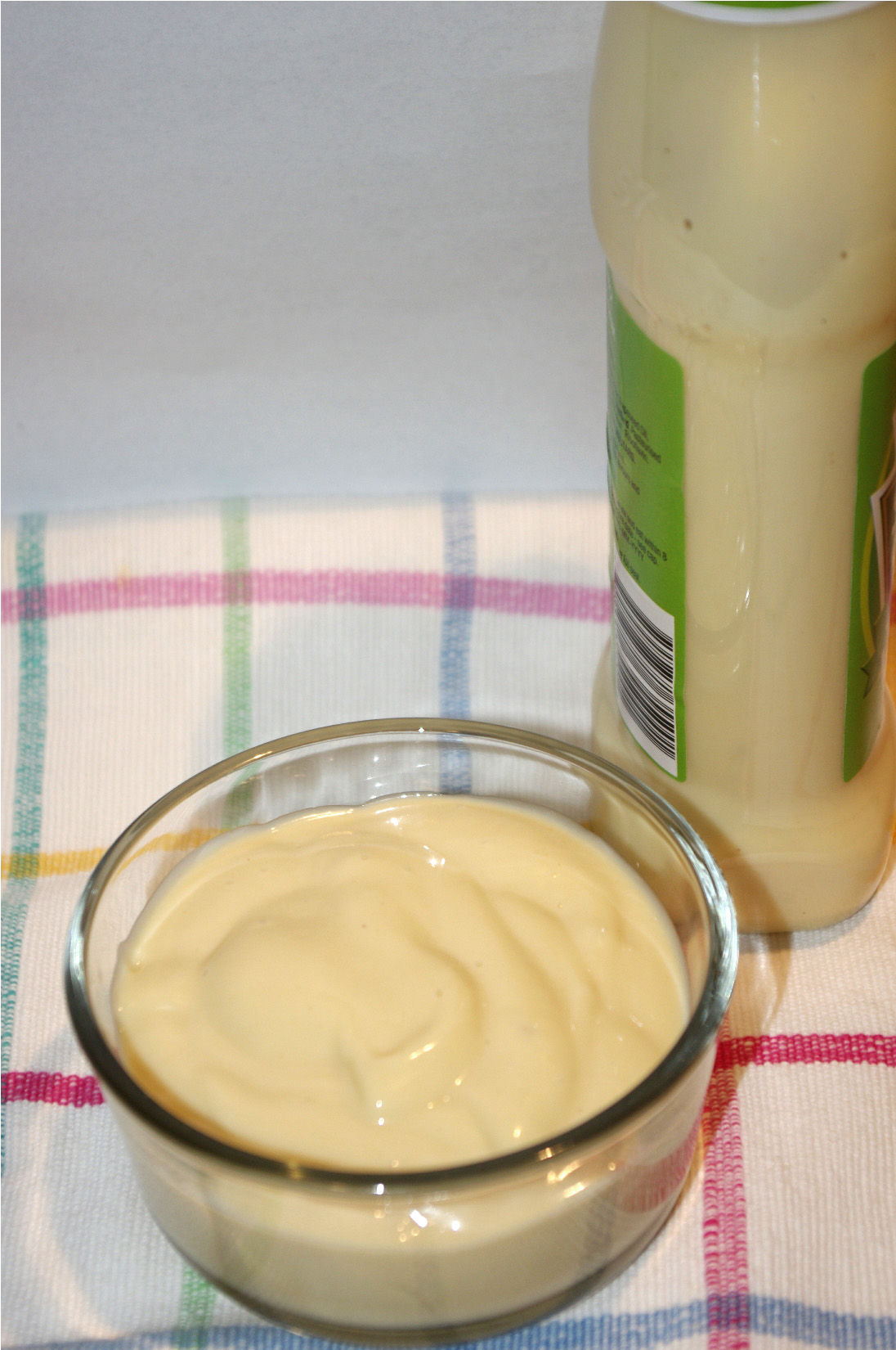 Heinz Salad Cream. Ingredients: spirit vinegar, water, rapeseed oil, sugar, cornflour, mustard, pasteurized egg yolks, salt, colour - riboflavin